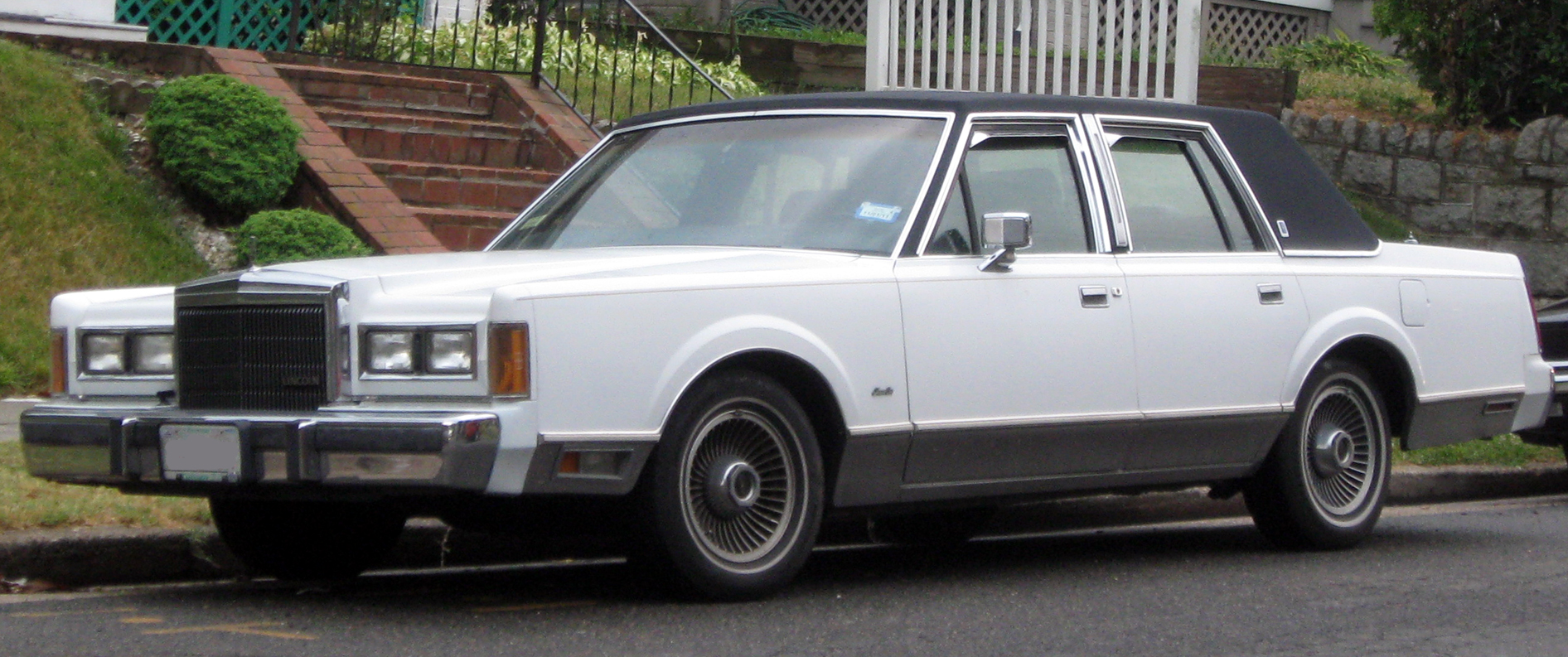 1989 Lincoln Town Car photographed in Washington, D.C., USA.